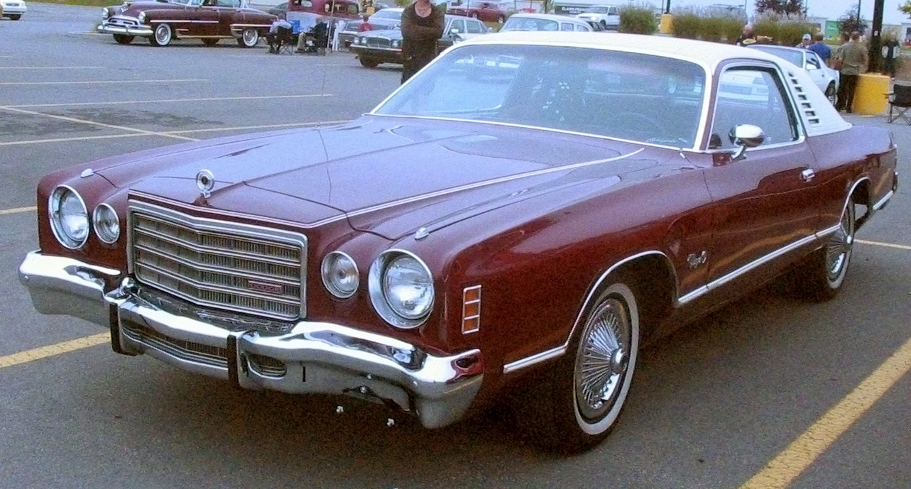 1975 Dodge Charger photographed in Laval, Quebec, Canada at Les chauds vendredis.